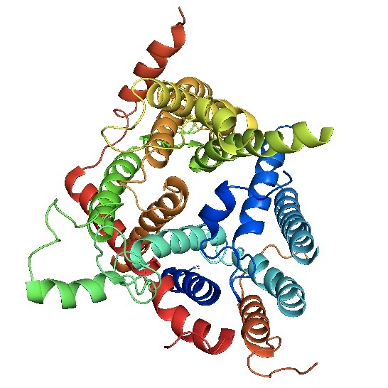 Three-dimensional structure of Sec61 complex from the cytosolic perspective. Based on PyMOL rendering of PDB.